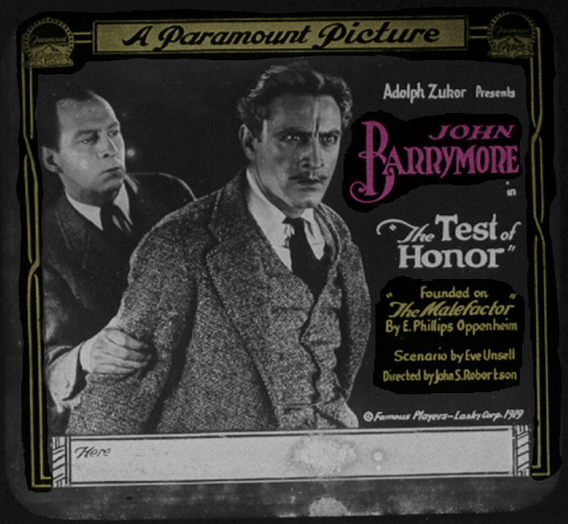 The Test of Honor (1919) is a silent film drama produced by Famous Players-Lasky and released by Paramount. This is a lantern slide for the film. Image had the addition of colour to monochrome source image, in an attempt to match contemporary source.